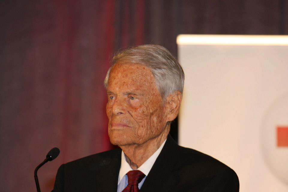 Ralph Hauenstein receiving the General George Marshall Patriot Award in 2013